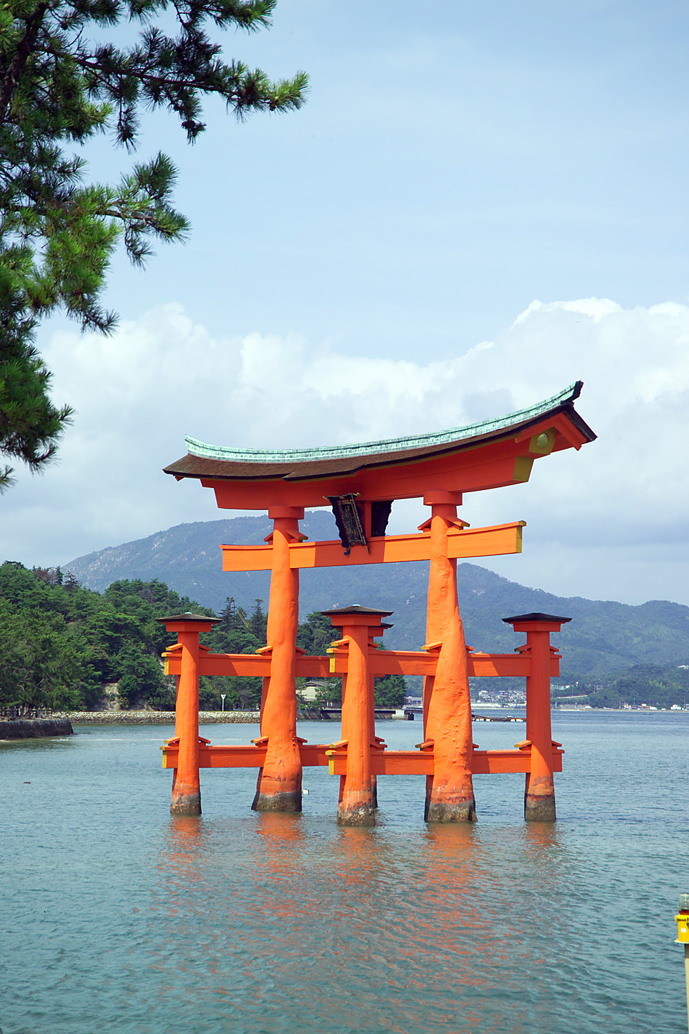 Torii at Itsukushima Shrine, Miyajima, Hiroshima Prefecture, Japan. I took the photo.